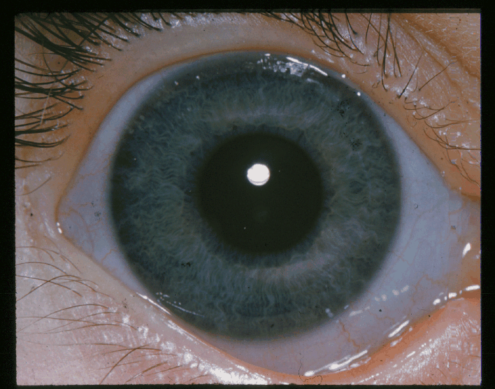 The patient was a four-year-old female who was first seen three months before with a two day history of swelling of the upper lid of the left eye and lower lid of the right eye. This was apparently due to some skin eruption. The patient was also thought to have congenital glaucoma and the sclerae were noted to be blue. The corneas also protruded anteriorly and it was thought the patient might possibly have keratoconus. The patient was thought to have the syndrome of blue sclerotics with a high myopic astigmatism. Incidentally, the parents were first cousins. Generally, the patient had a brachycephaly, there was no nystagmus and the heart was normal. The patient was thought to possibly have osteogenesis imperfecta. She was also thought to have the typical physique of Marfan's, but the lenses were not dislocated. She had blue sclerae ([1], [2]) and keratoconus and she was -6.00 to -8.00 diopters myopic. It appeared that the patient had type VI Ehler's Danlos syndrome on the basis of the blue sclera, high myopia and keratoconus.